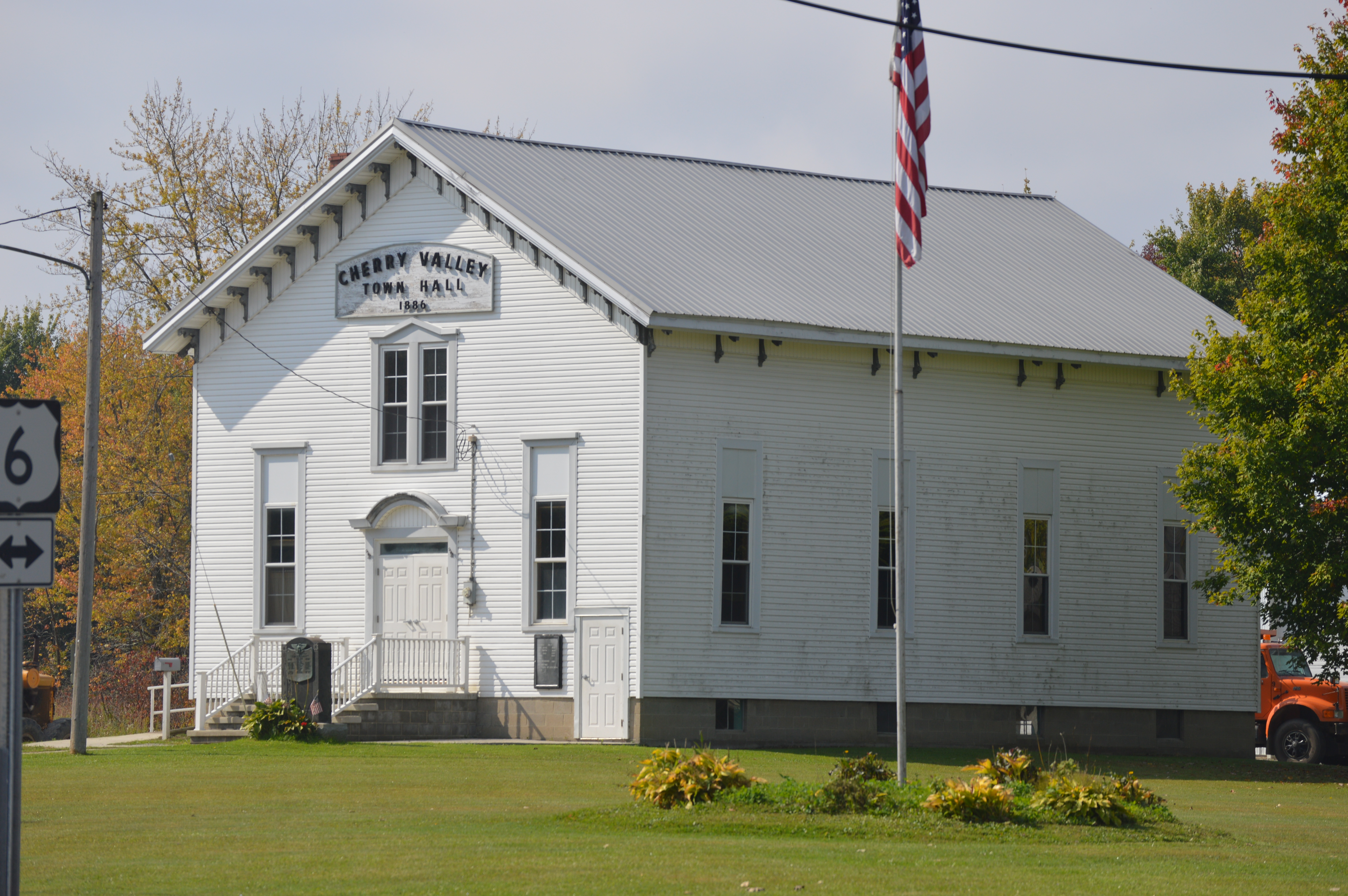 Front and northern side of the Cherry Valley Township Hall, located at Cherry Valley Center, Ohio, United States. It was built in 1886 and today sits at the junction of U.S. Route 6 and State Route 193.